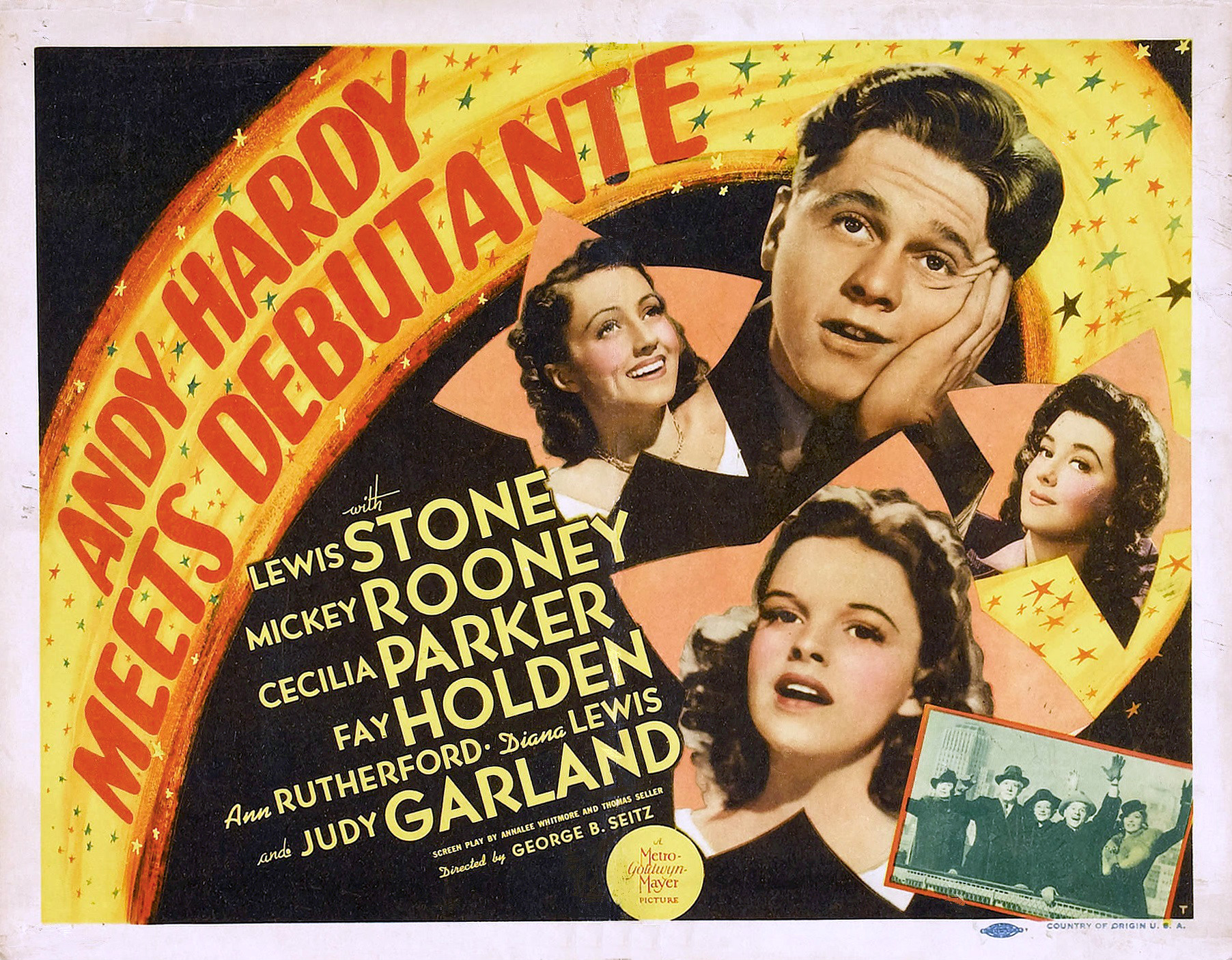 Poster for the 1940 film Andy Hardy Meets Debutante. The item has no copyright markings on it as can be seen in the links above. At bottom right is a logo indicating the poster was printed by a union print shop, Country of Origin USA, and a "T"-possibly for Tooker Litho Co., NY, who printed posters for MGM for many years.